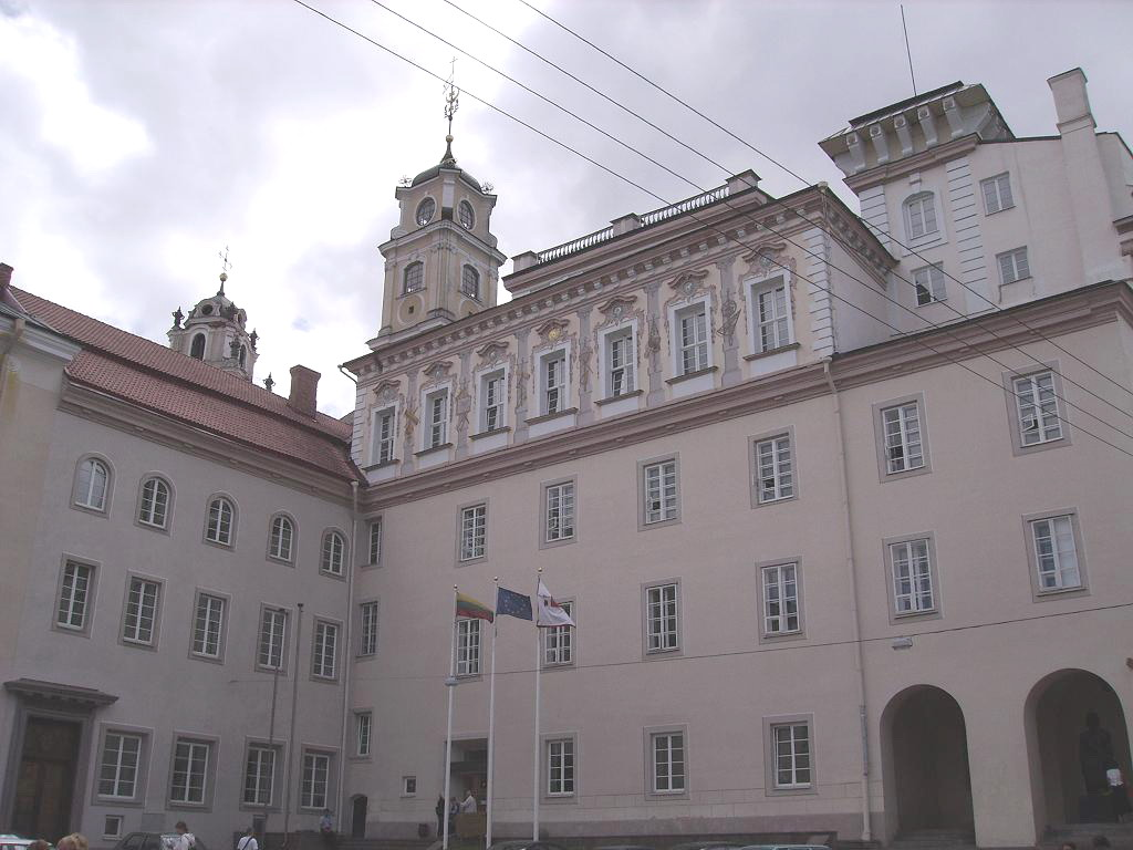 Vilnius University in 2006